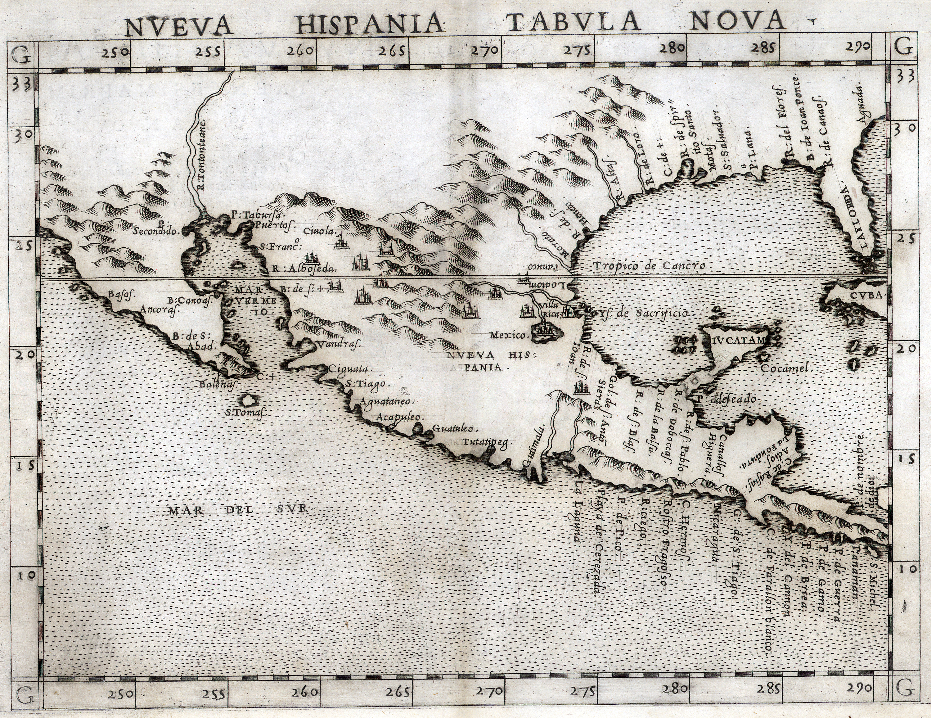 Ruscelli's 1561 map of New Spain was an enlarged copy of fellow Venetian Giacomo Gastaldi's 1548 map of New Spain, but with a major difference: Ruscelli's map showed Yucatan correctly as a peninsula, not an island. Both were New World addendum maps for "modern" editions of the 2nd century Greek geographer Claudius Ptolemy's book on geography.